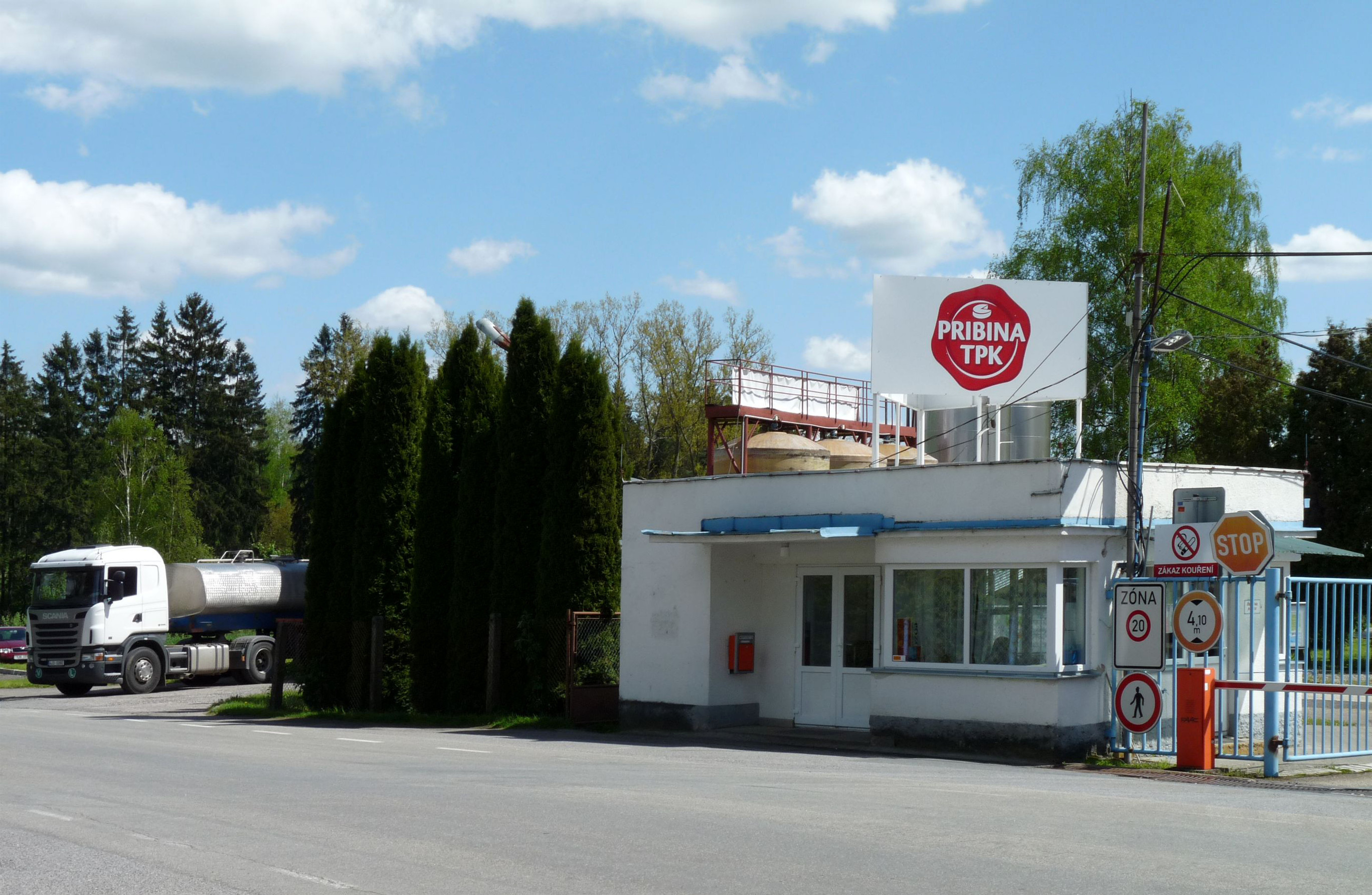 Dairy plant of TPK Pribina in the village of Hesov, part of the town of Přibyslav, Havlíčkův Brod District, Vysočina Region, Czech Republic.